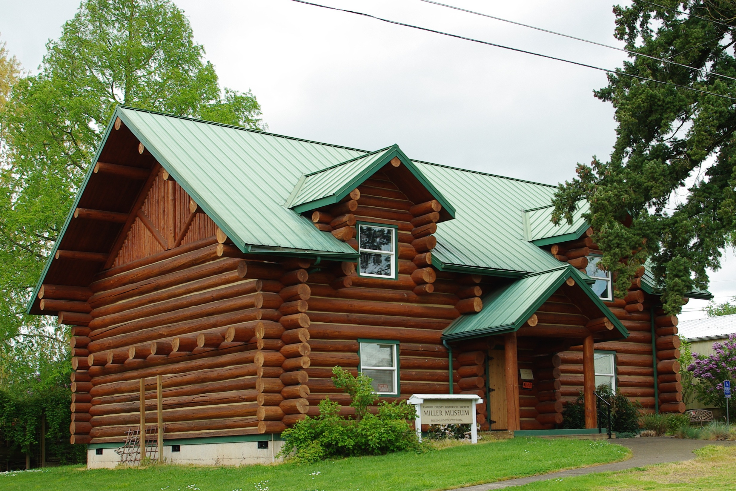 Yamhill County Museum in Lafayette, Oregon, USA. Newer museum under construction near McMinnville.